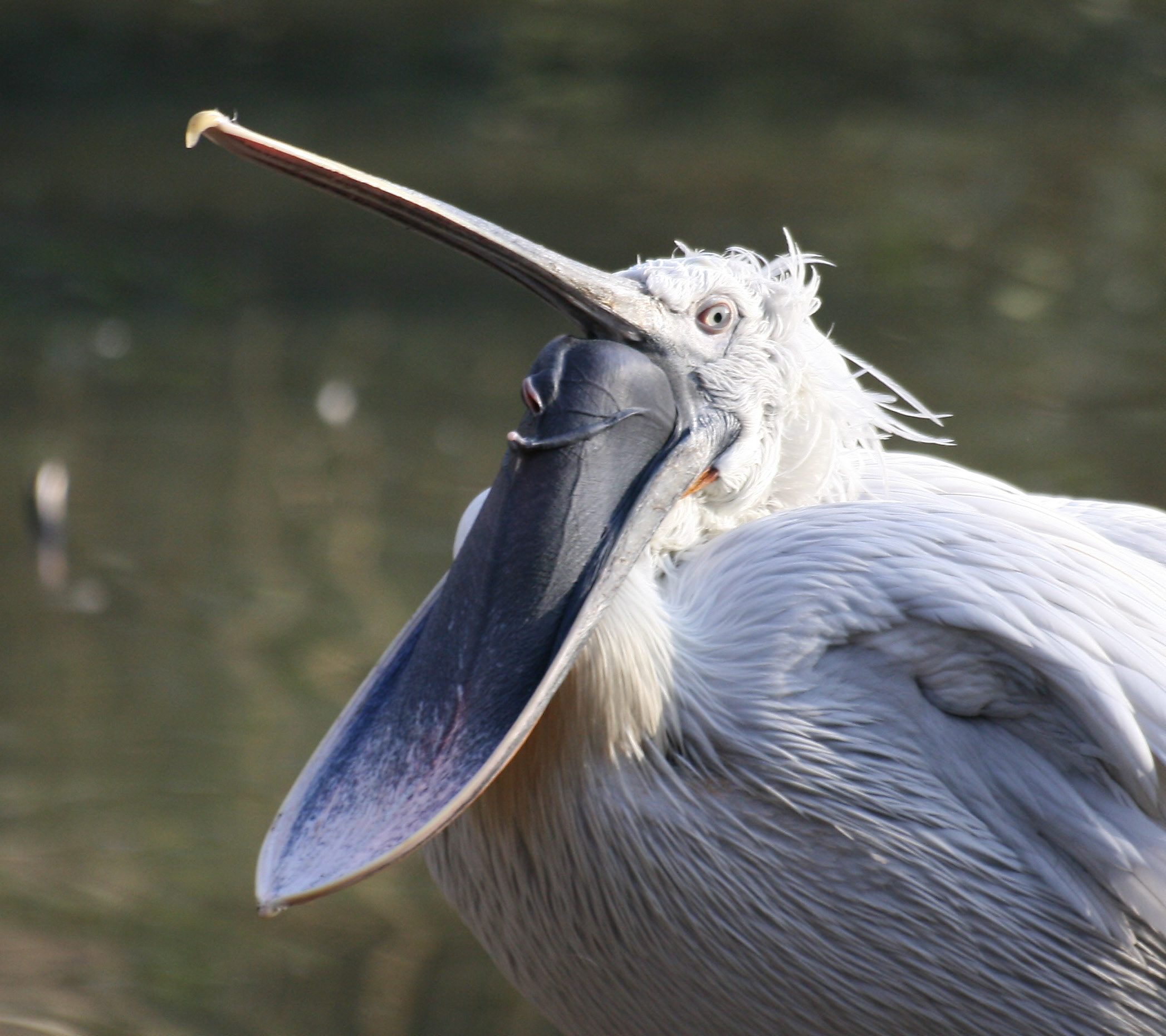 A pelican with an open pouch. Shot at Colchester Zoo.